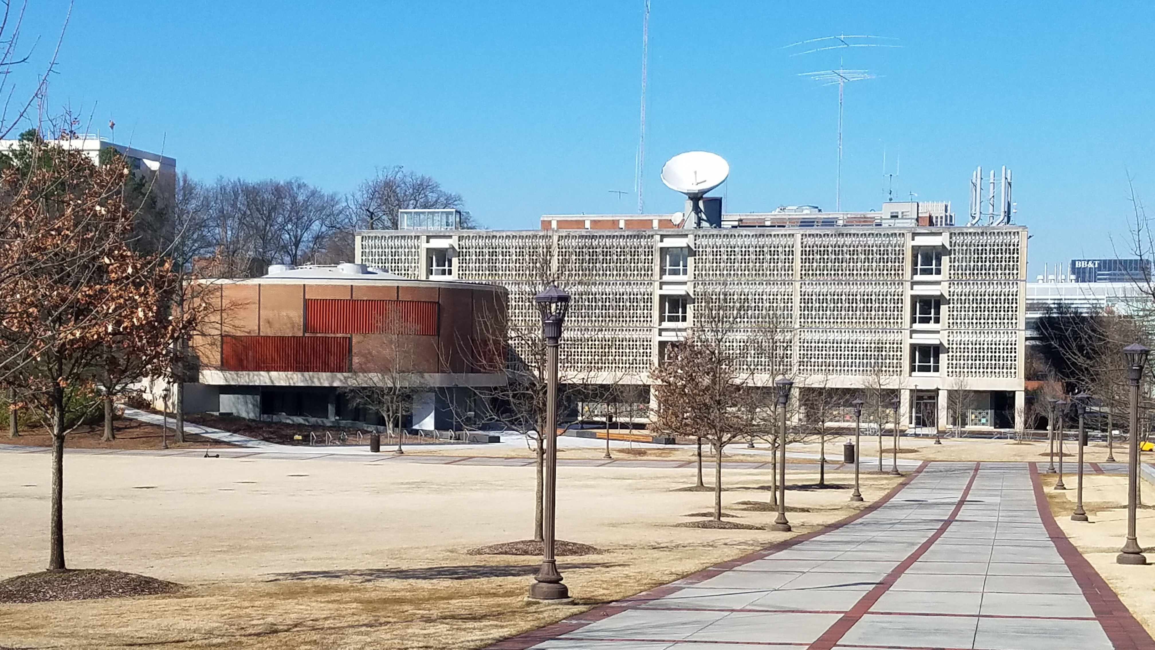 Van Leer Building on the campus of the Georgia Institute of Technology, Atlanta, Georgia, United States